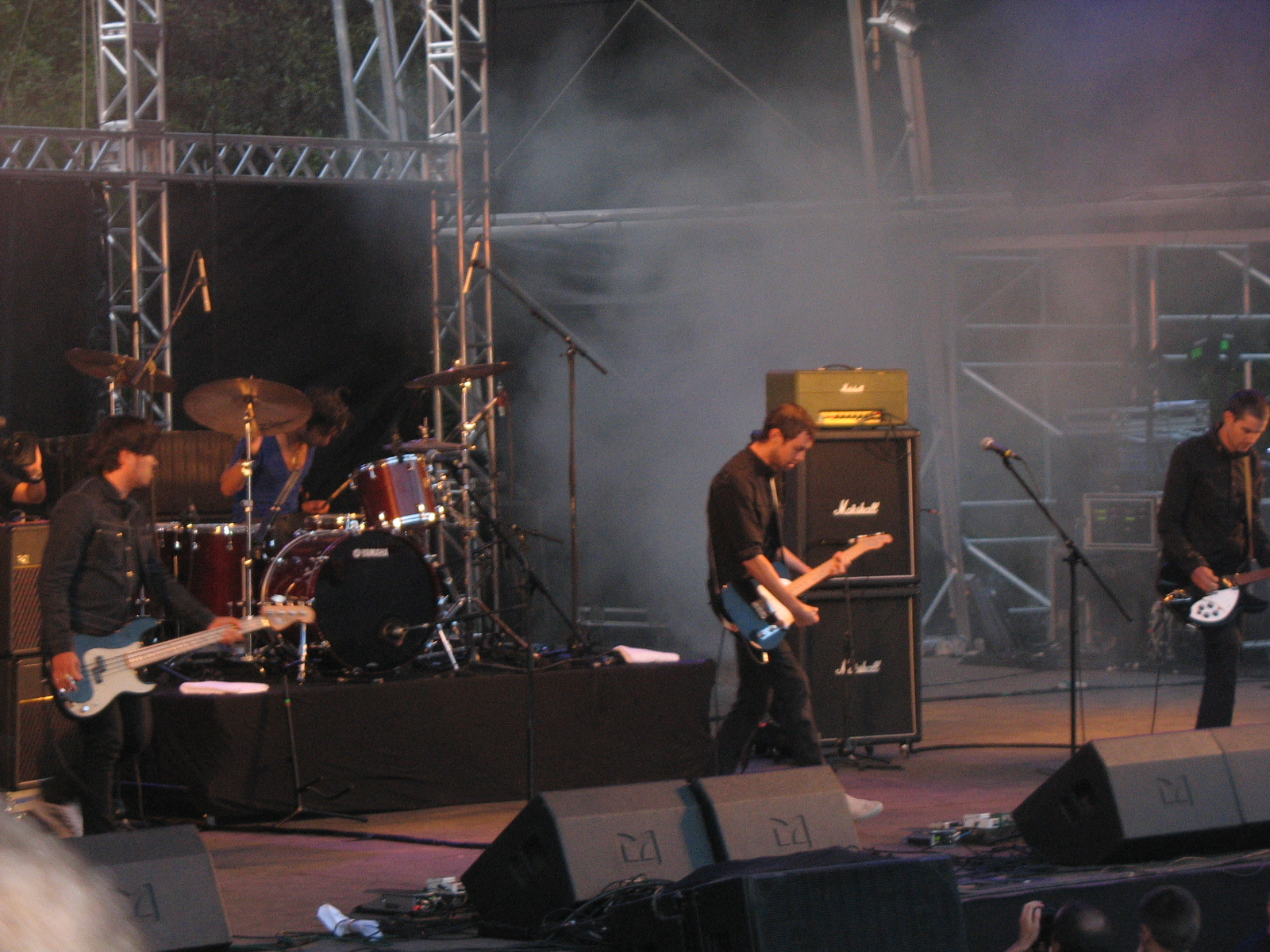 photo of post-hardcore north american band Sparta